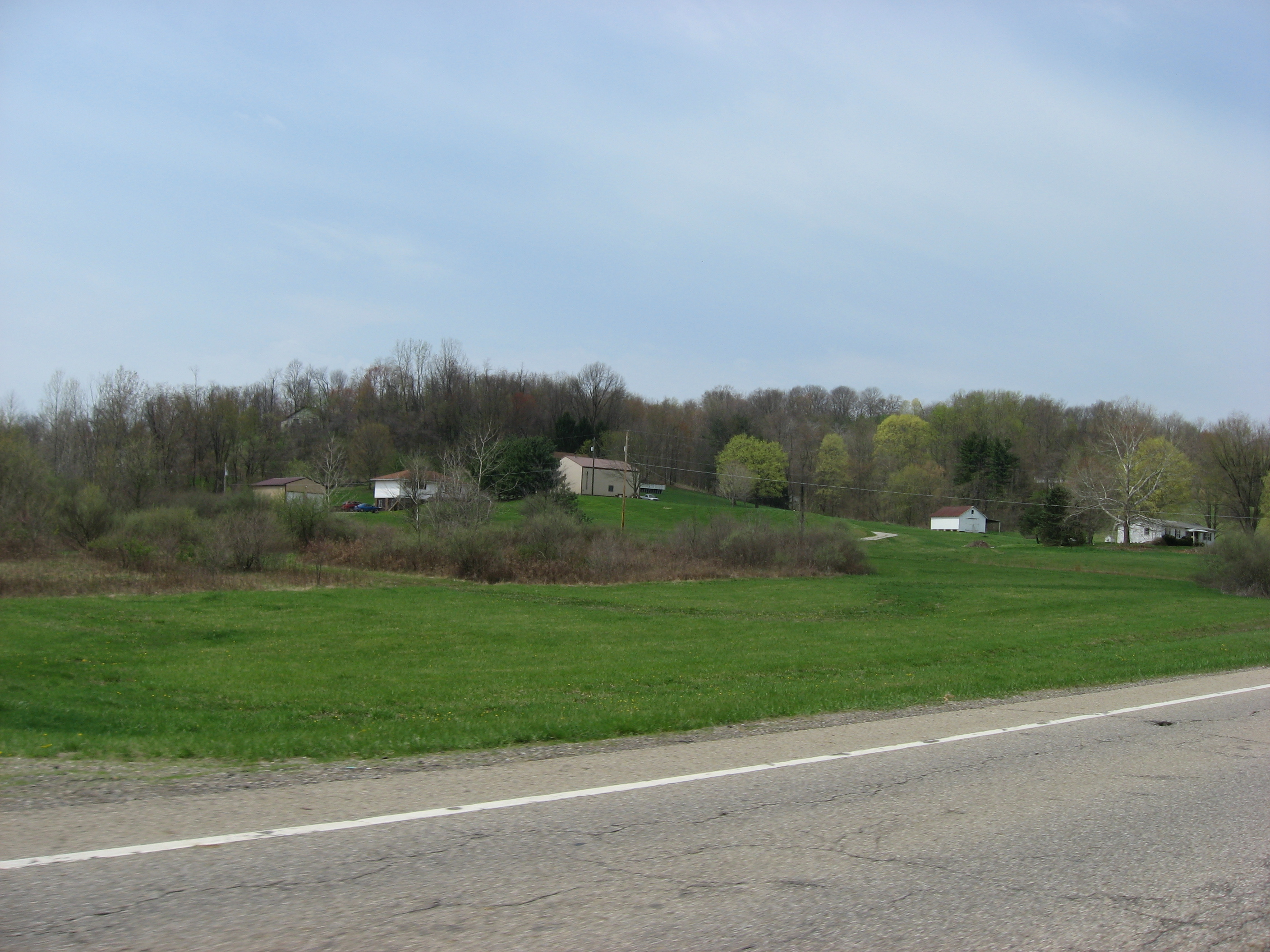 Fields in the vicinity of the Locust Site, an archaeological site east of Nashport in Licking Township, Muskingum County, Ohio, United States. During the Woodland period, it was the site of a Native American village. Today, it is listed on the National Register of Historic Places.